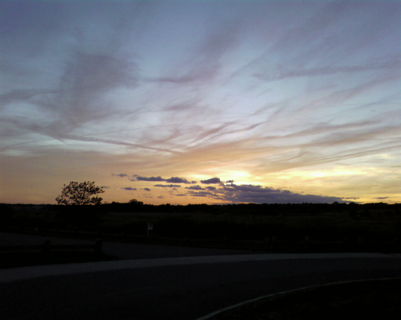 Sunset at Silver Sands State Park